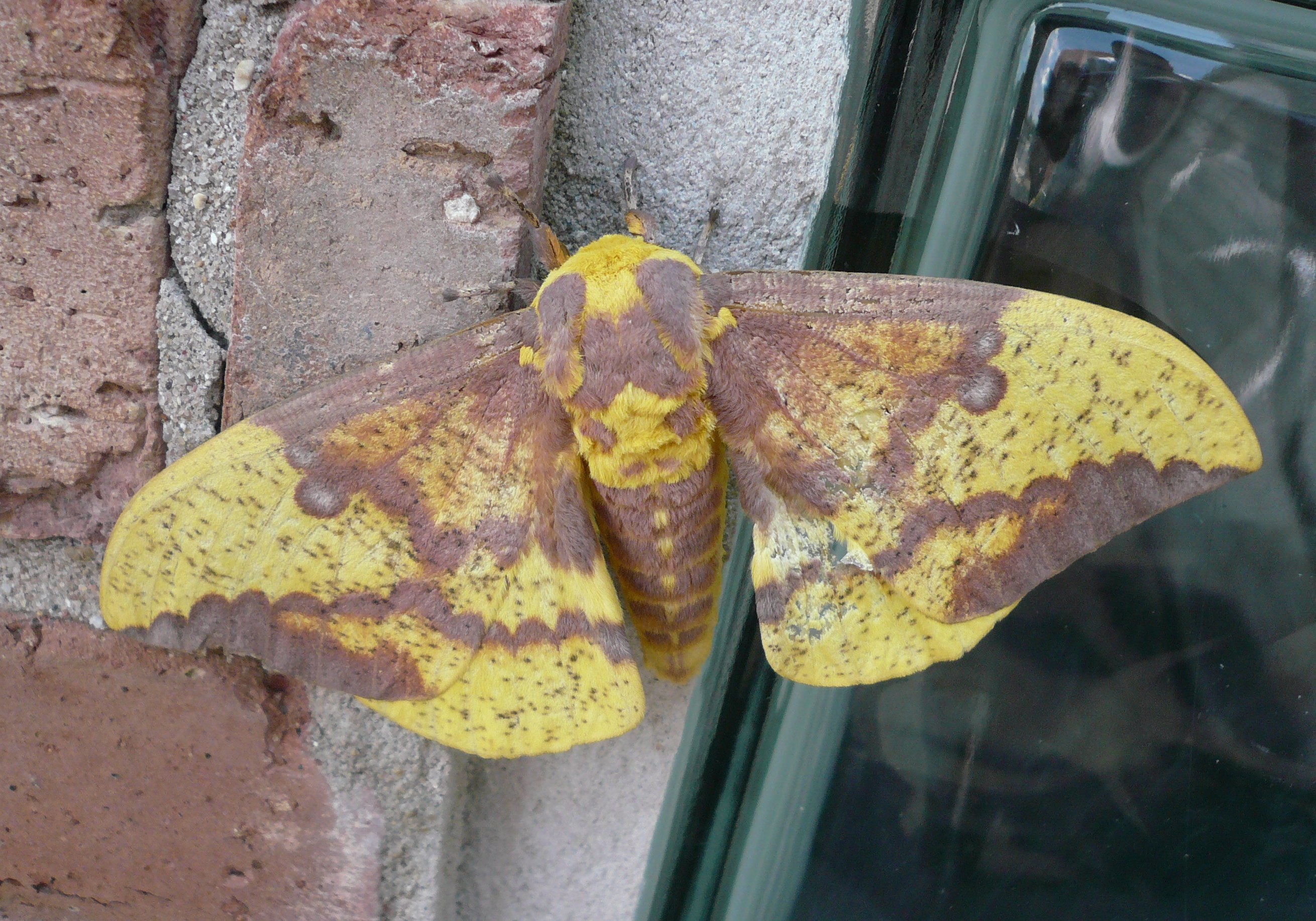 Eacles imperialis adult found in Palos Heights, Illinois.